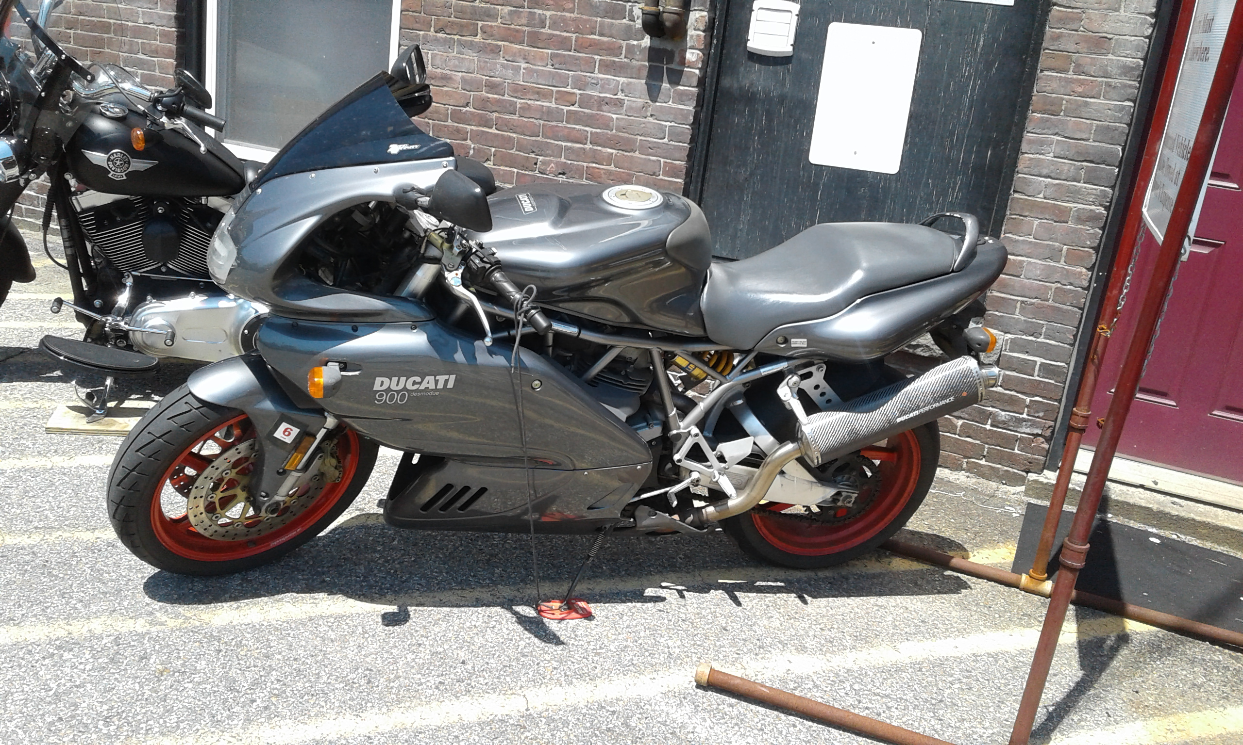 Grey Ducati 900 sport bike parked on Mill Street in downtown Littleton, New Hampshire.